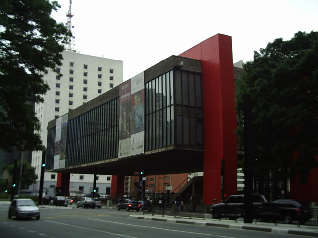 MASP in São Paulo City.